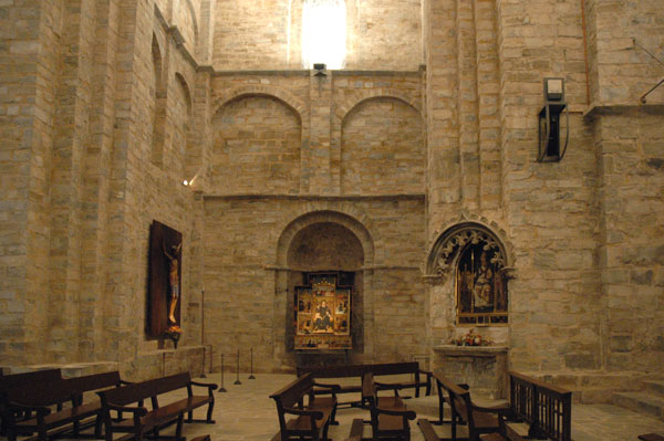 San Pedro de Siresa Monastery. Siresa, Huesca, Spain